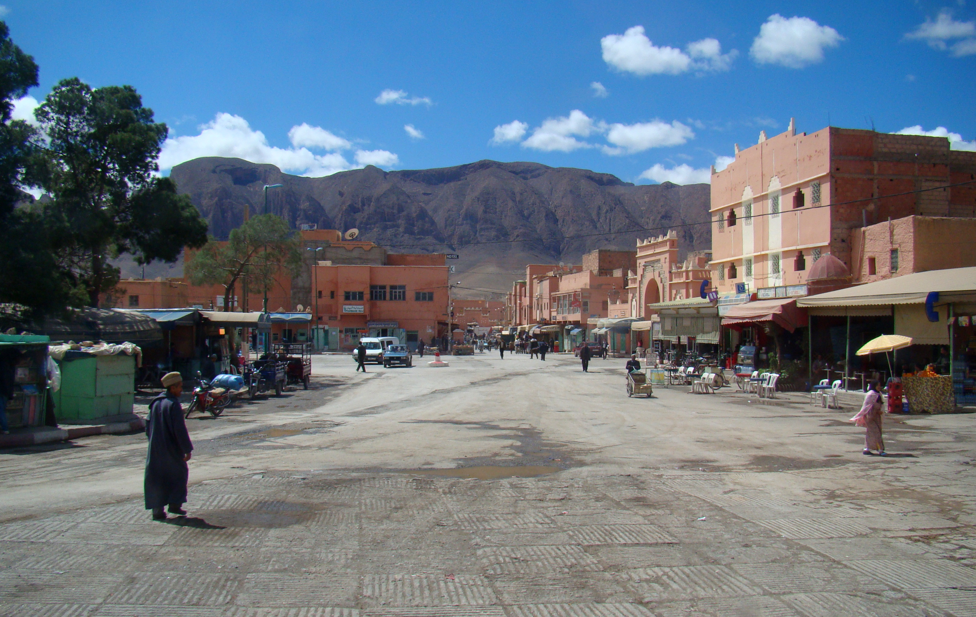 A town square in the High Atlas mountains in Rich, Morocco.